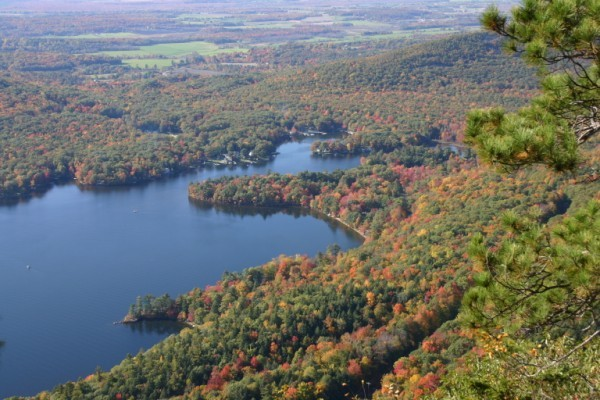 Shot of Keewaydin Dunmore from Mt. Moosalamoo